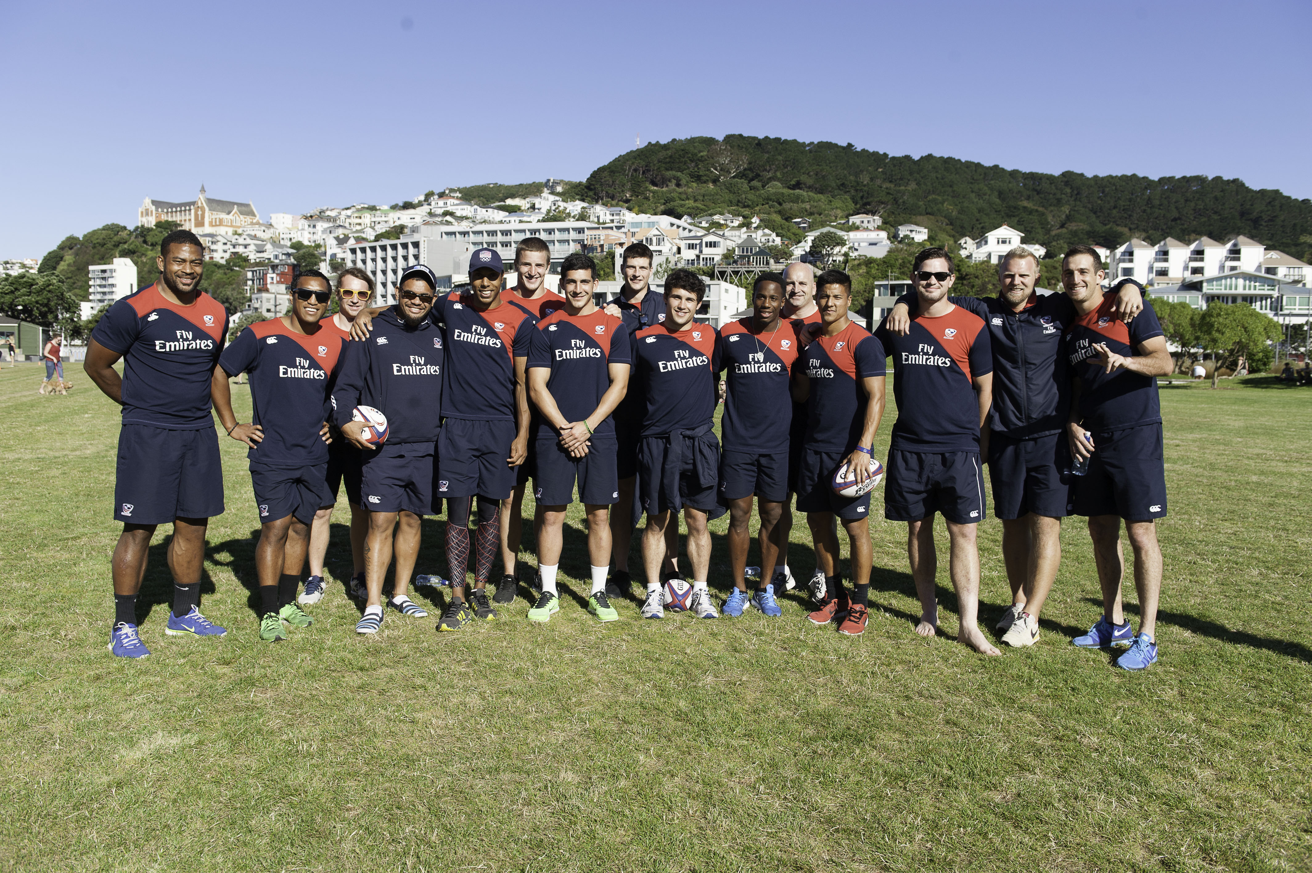 On Monday, February 3rd the public had the opportunity to meet the USA Rugby Sevens team ahead of the Wellington Sevens Rugby Tournament. There was free food, player autograph signings and fun rugby drills.